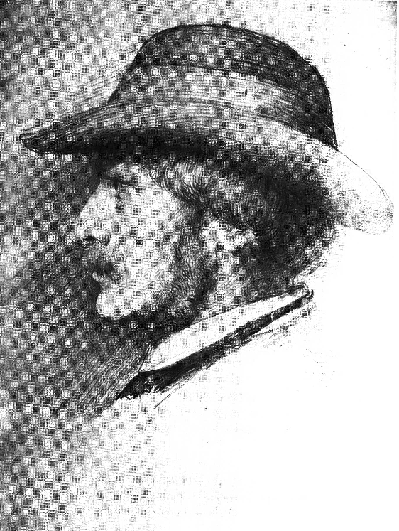 Selbstbildnis des Eduard Bendemann